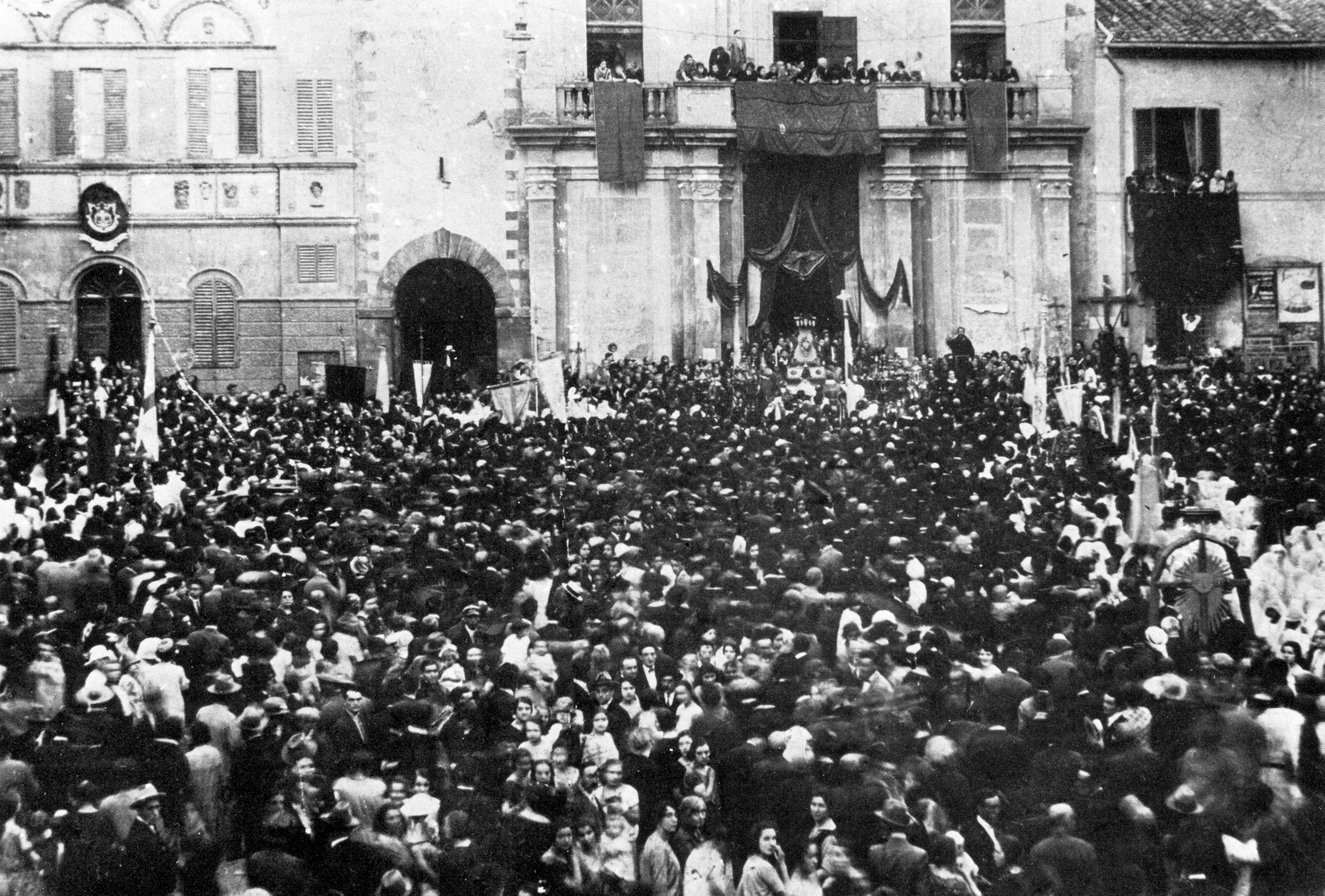 Crowd in front of San Lorenzo Church during or after a celebration